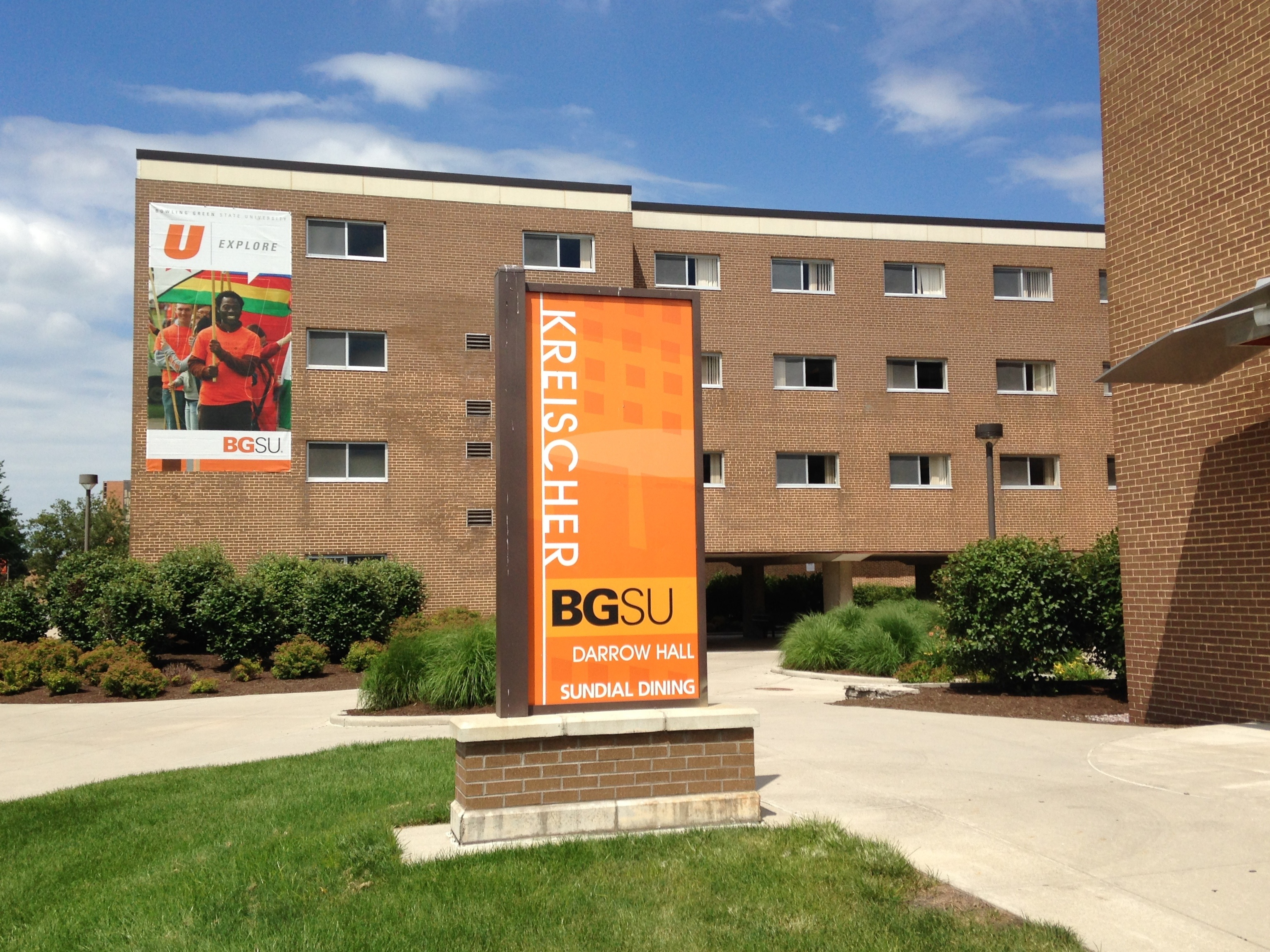 Kreischer-Darrow Hall at BGSU.